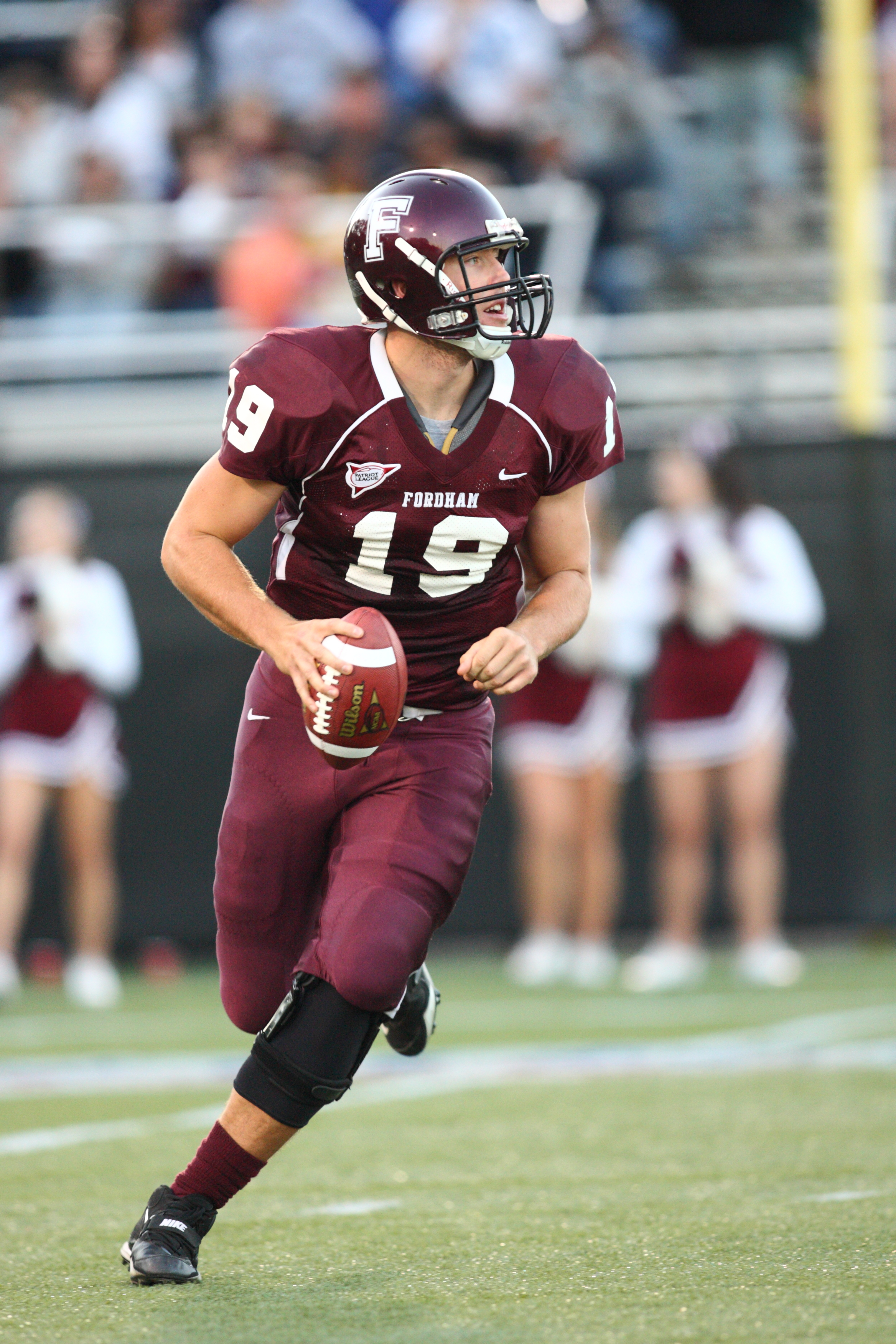 John Skelton, Fordham quearterback rolls out